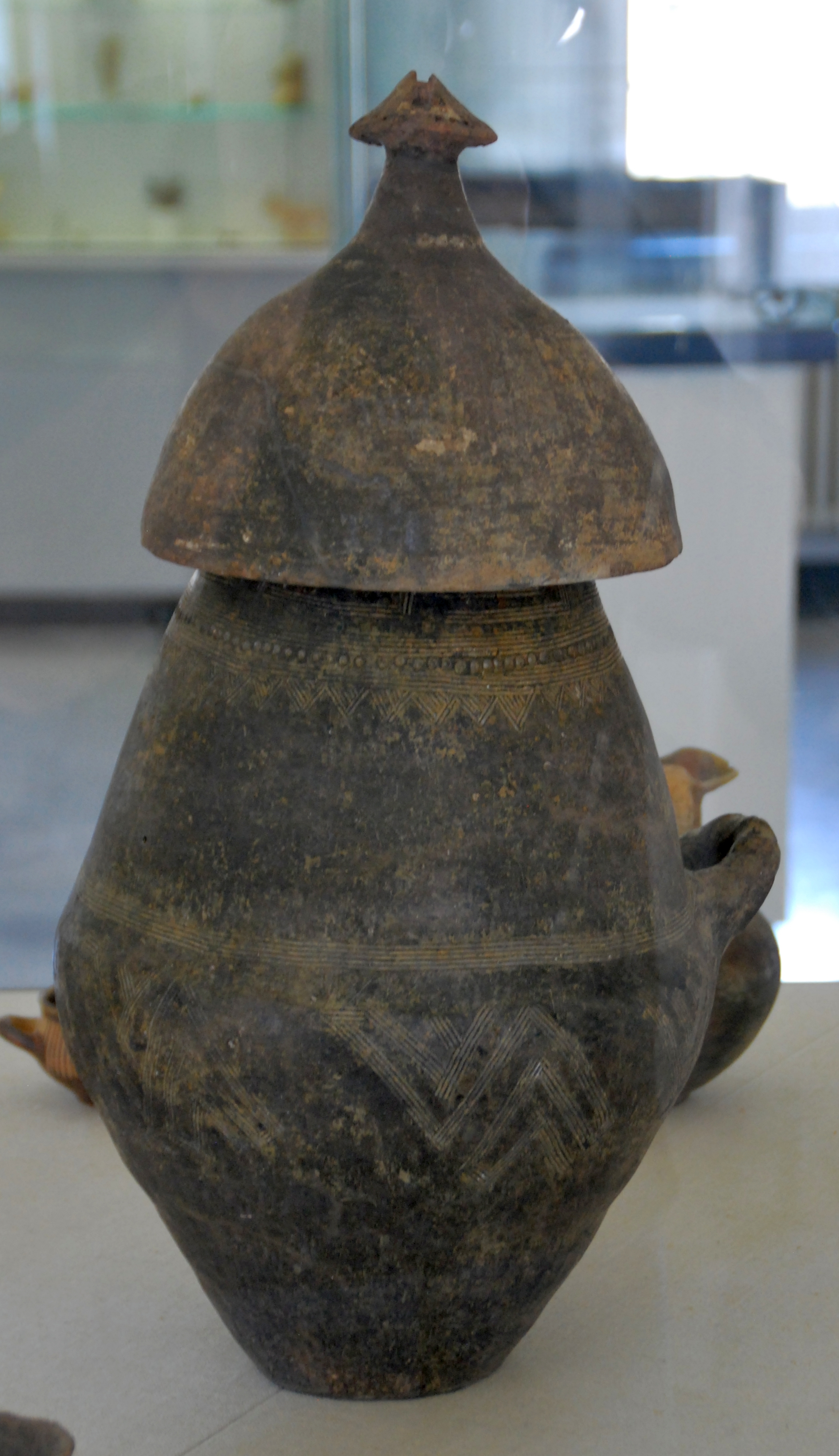 Etruscan biconical cinerary urn of gray-black impasto with incised decoration and depressions (probably for metal buttons) lid in helmet shape is probably not original depends to the urn; about 850/790 BC; inventory number H 5712a/b.